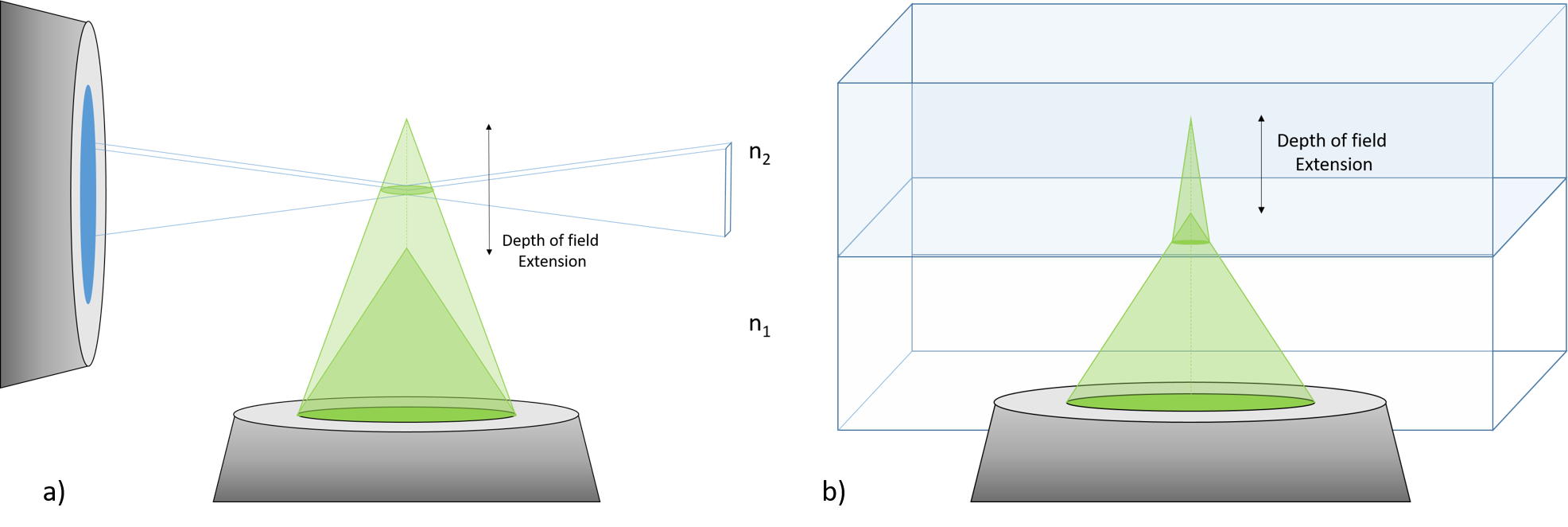 a)Depth of field representation in imaging b) Depth of field extension by means of a layer of different recracting index